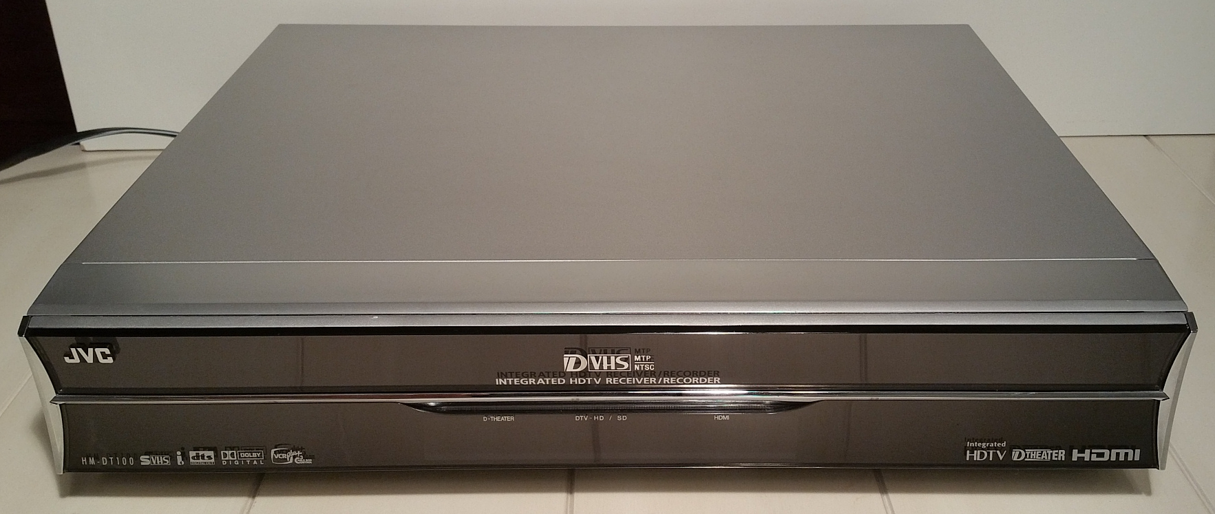 digital video recorder JVC model HM-DT100U